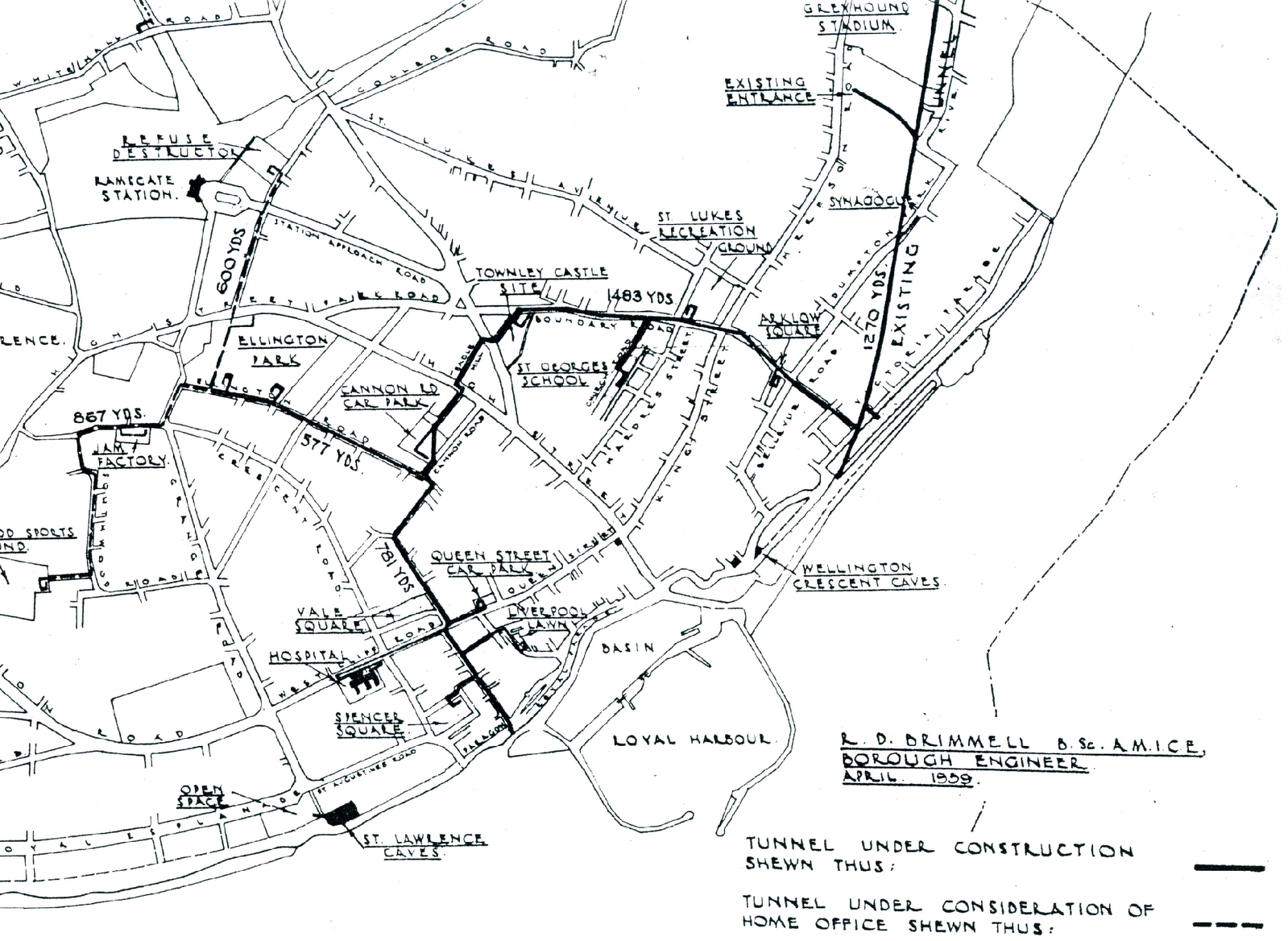 Map of the Ramsgate air raid tunnel sustem constructed 1938-1939